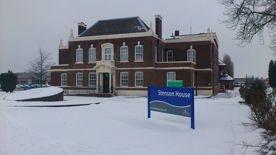 Stenson House, London Road, Coalville - built as the municipal offices for the Coalville Urban District Council, since superseded by the North West Leicestershire District Council.